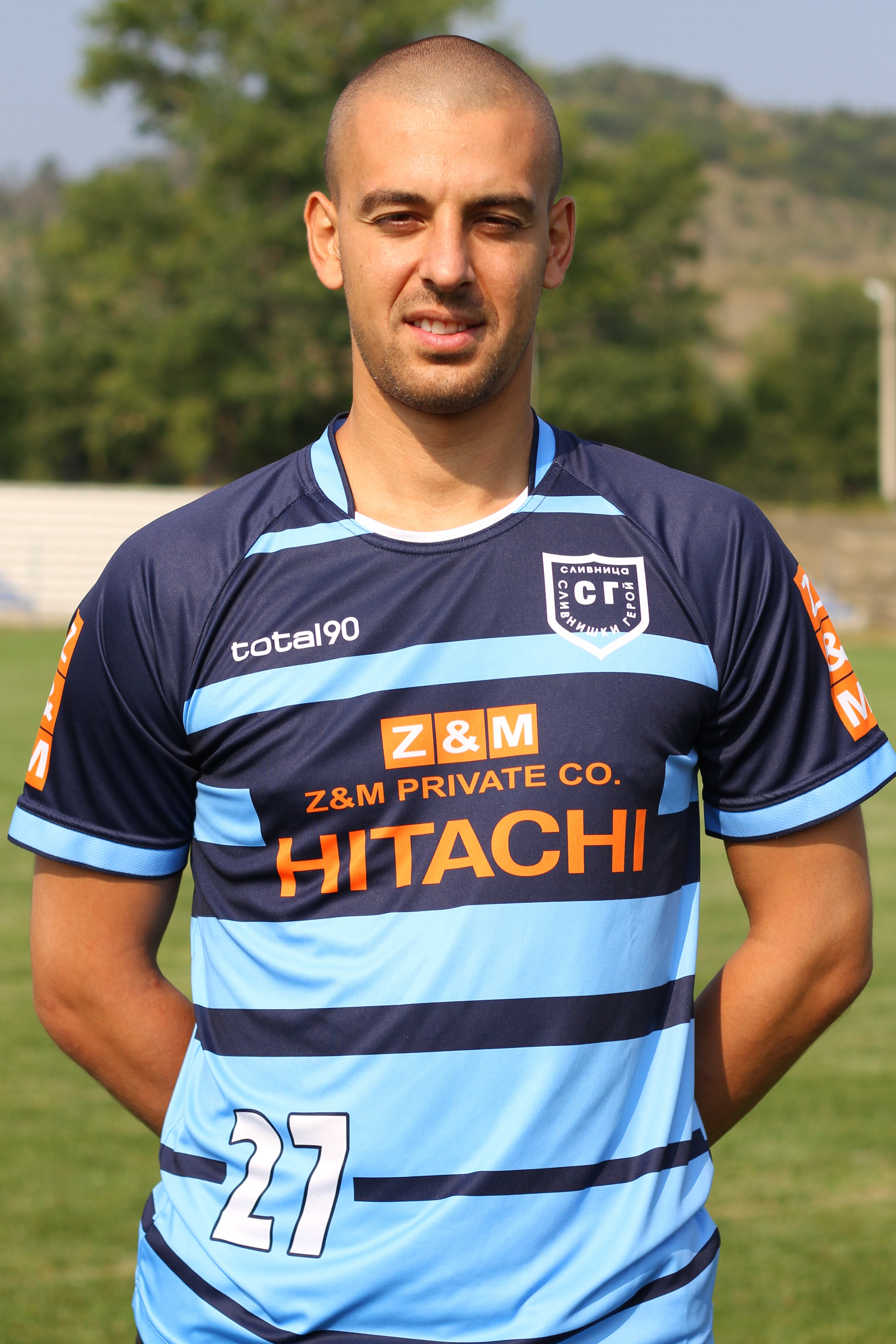 Borislav Stoyanov - Bulgarian footballer currently playing for Slivnishki geroi in the South-West V AFG as a goalkeeper.